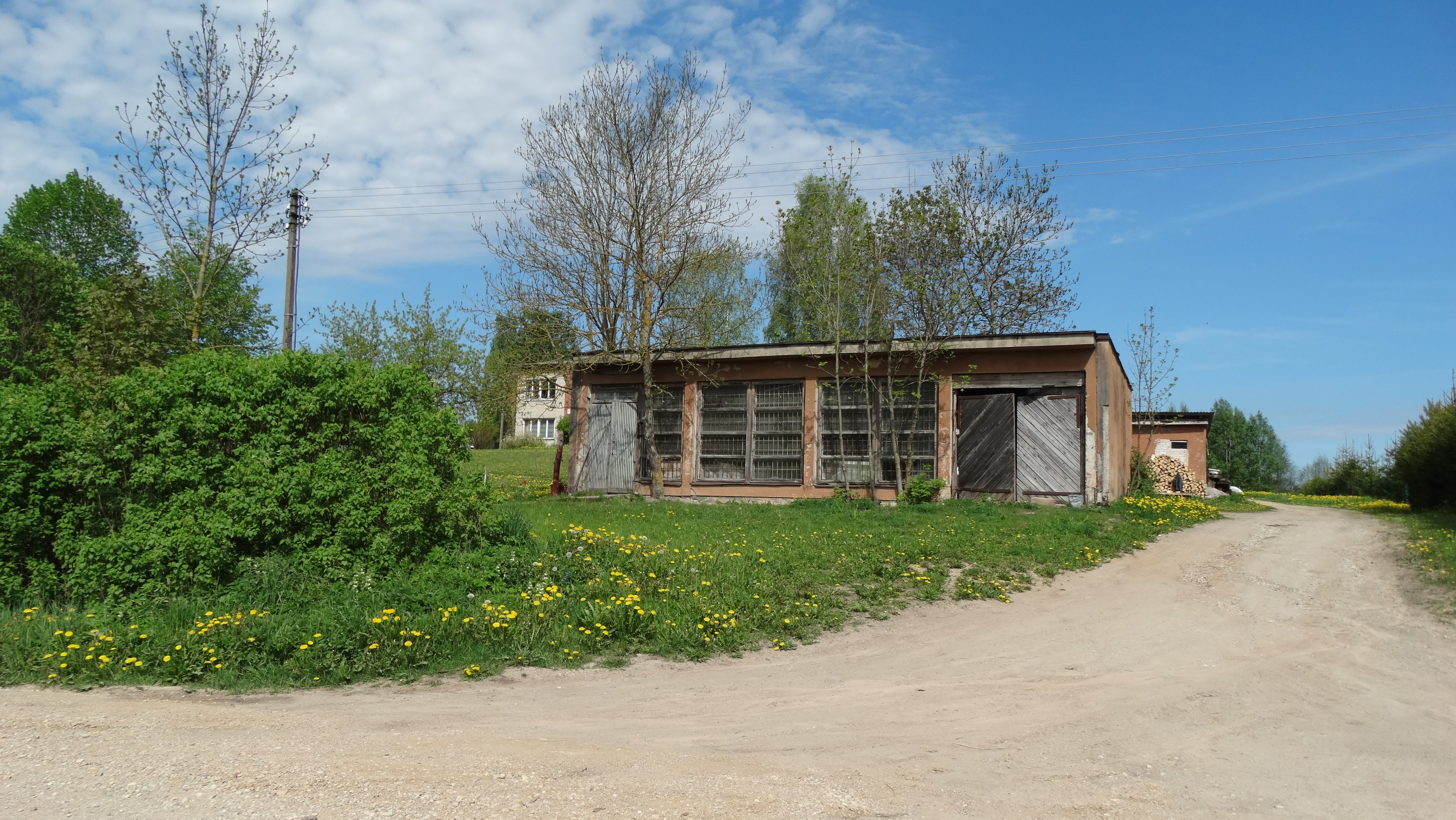 Voversys, Anykščiai District, Lithuania